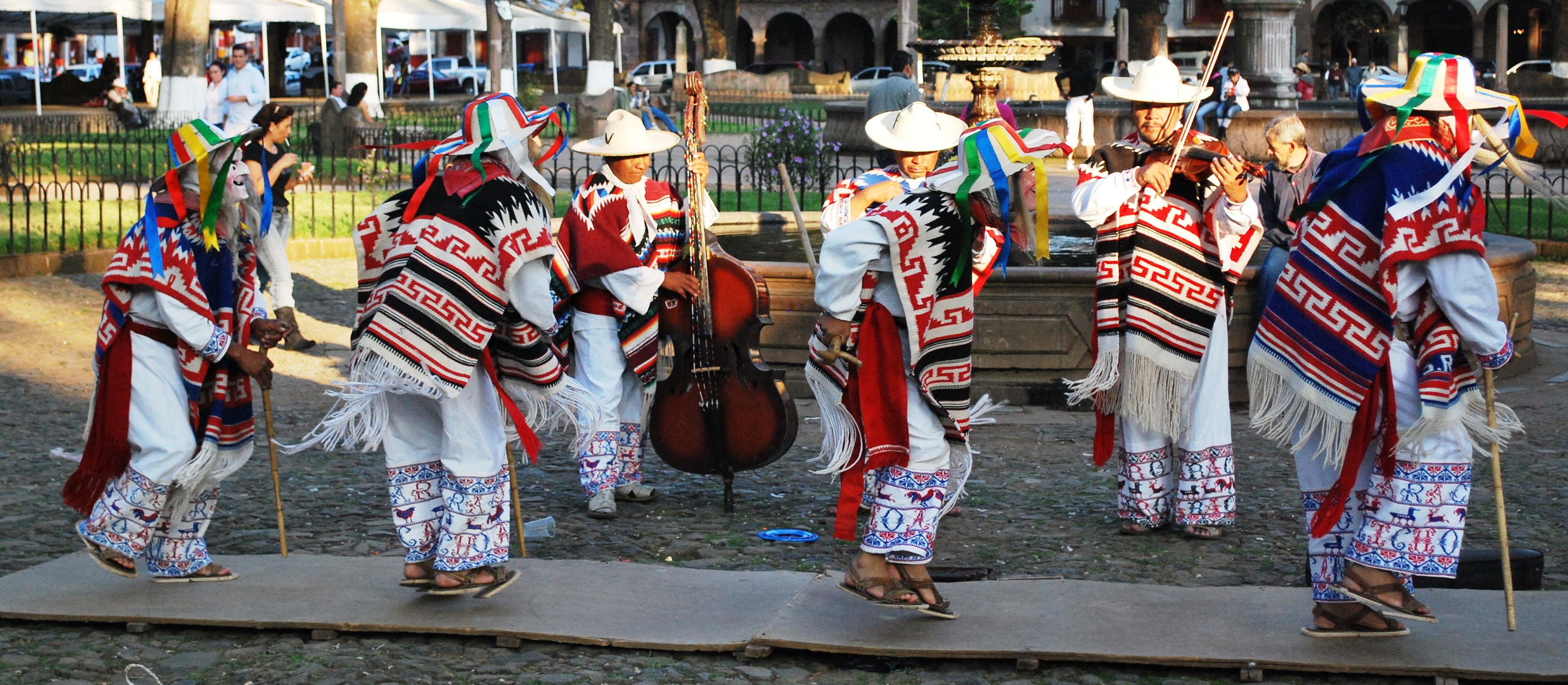 Performance of the Danza de los Viejitos at Vasco de Quiroga Plaza in Patzcuaro, Michoacan